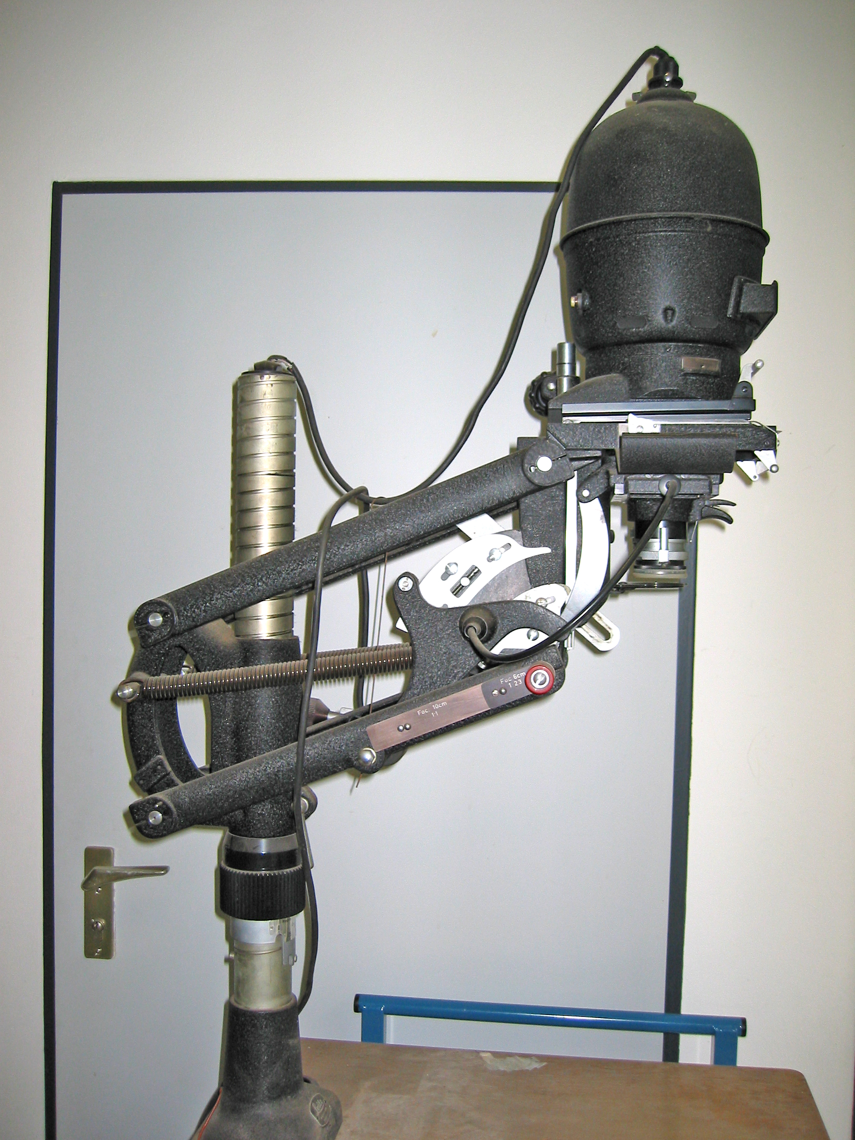 Leitz Focomat IIc — 35mm–6×9 formats, dual lens stage rather than turret, autofocus.